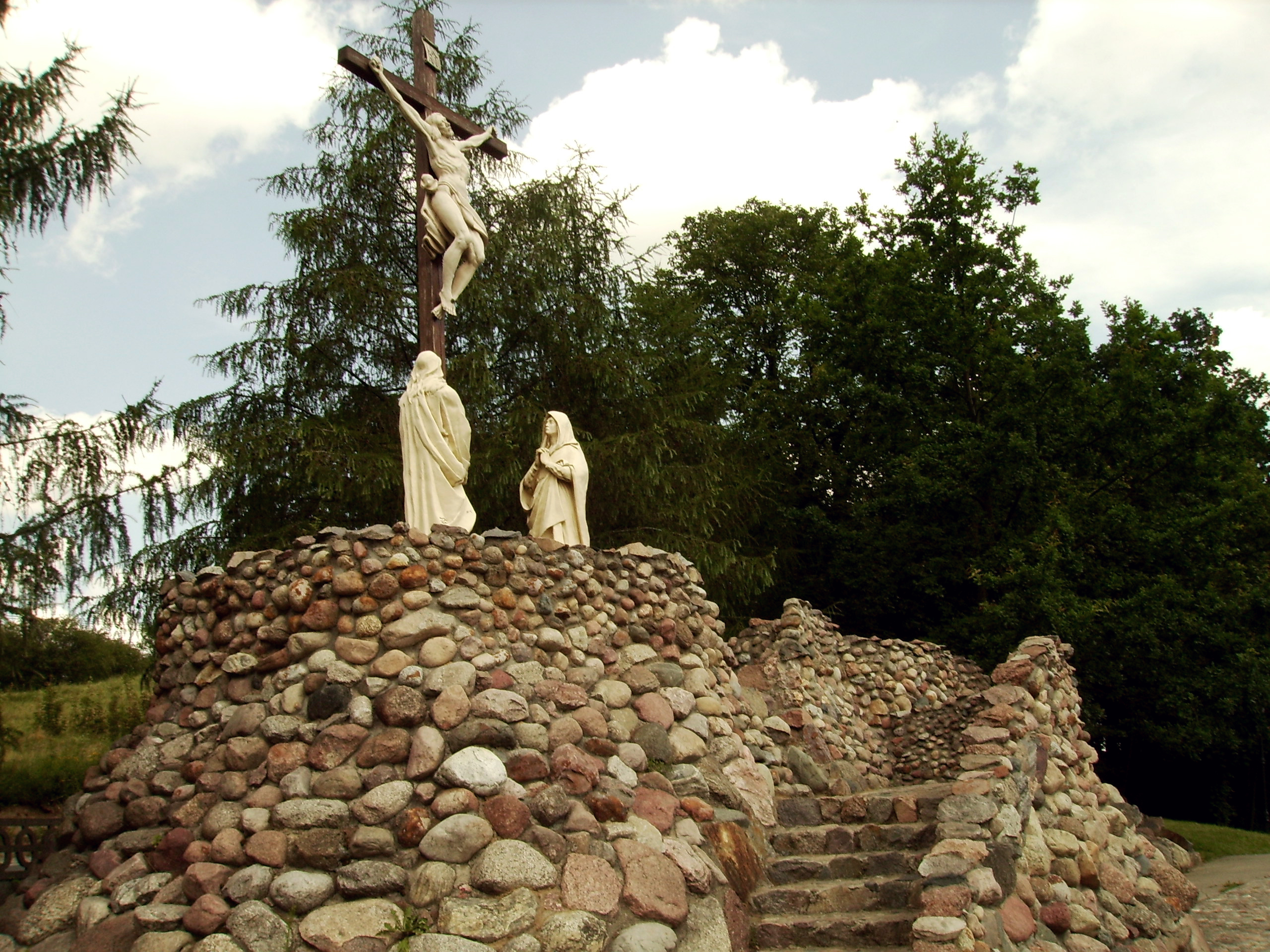 Obory - Golgota (in Poland)